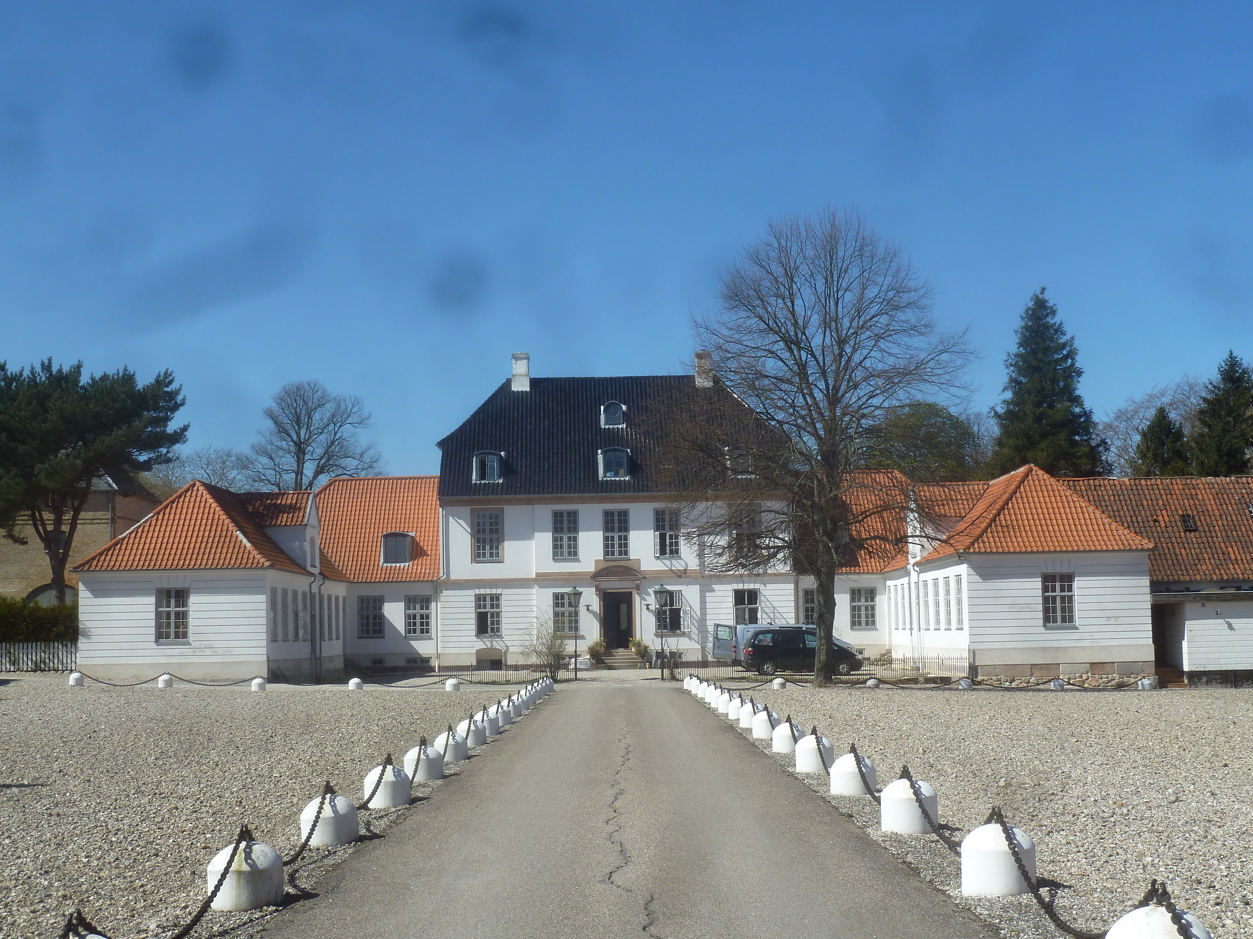 Edelgave, Egedal Municipality, Denmark